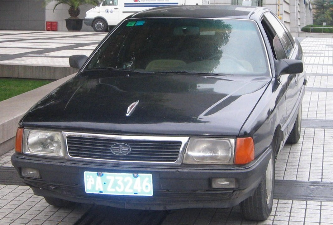 Hongqi Luxury Sedan